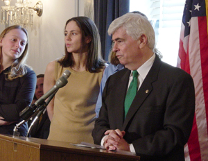 Sue Bird and the UConn Huskies are welcomed to Washington D.C. by Senator Chris Dodd.